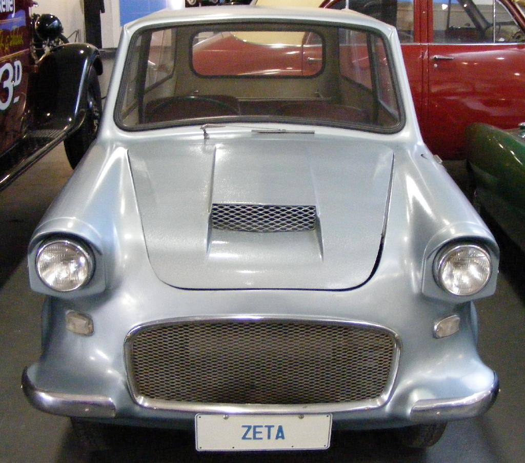 A Zeta Sedan, on display at the National motor museum in Birdwood south Australia